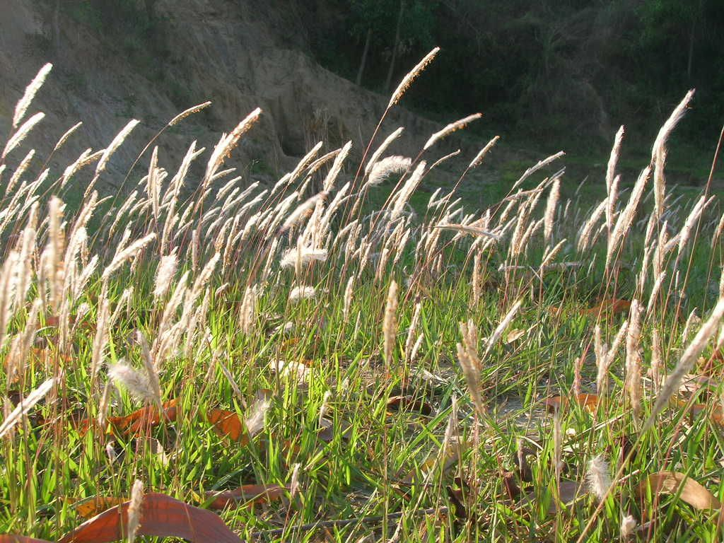 Picture of Sitakunda